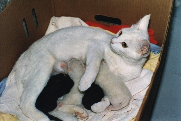 A one year old pure white cat nursing four kittens in a cardboard box behind a warm TV. Picture taken in Beaumont, Alberta, Canada in 1986. Name of Mother: Sugar (March 8, 1985 - August 26, 2004) Names of Kittens: Channel 3, Channel 5, Cable 8, Circuit Overload.